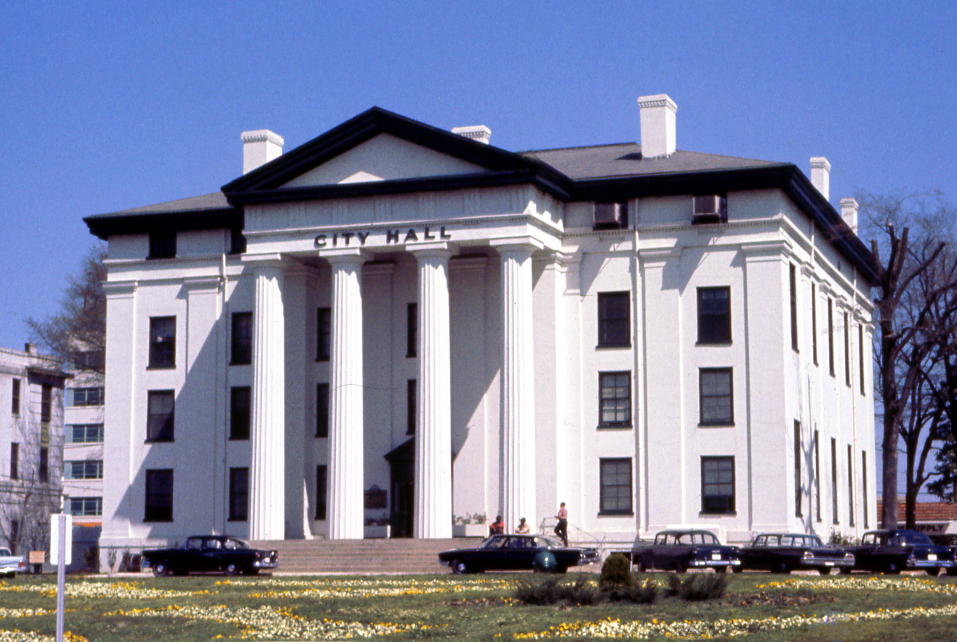 Collection: Shankle, Hugh W., Collection Call Number: PI/COL/1981.0066 System ID: 105989. Link to the catalog City Hall, Jackson, Mississippi, USA Please see our profile page for information on ordering. Scanned as TIFF in 2011/09/20 by MDAH. Credit: Courtesy of the Mississippi Department of Archives and History.